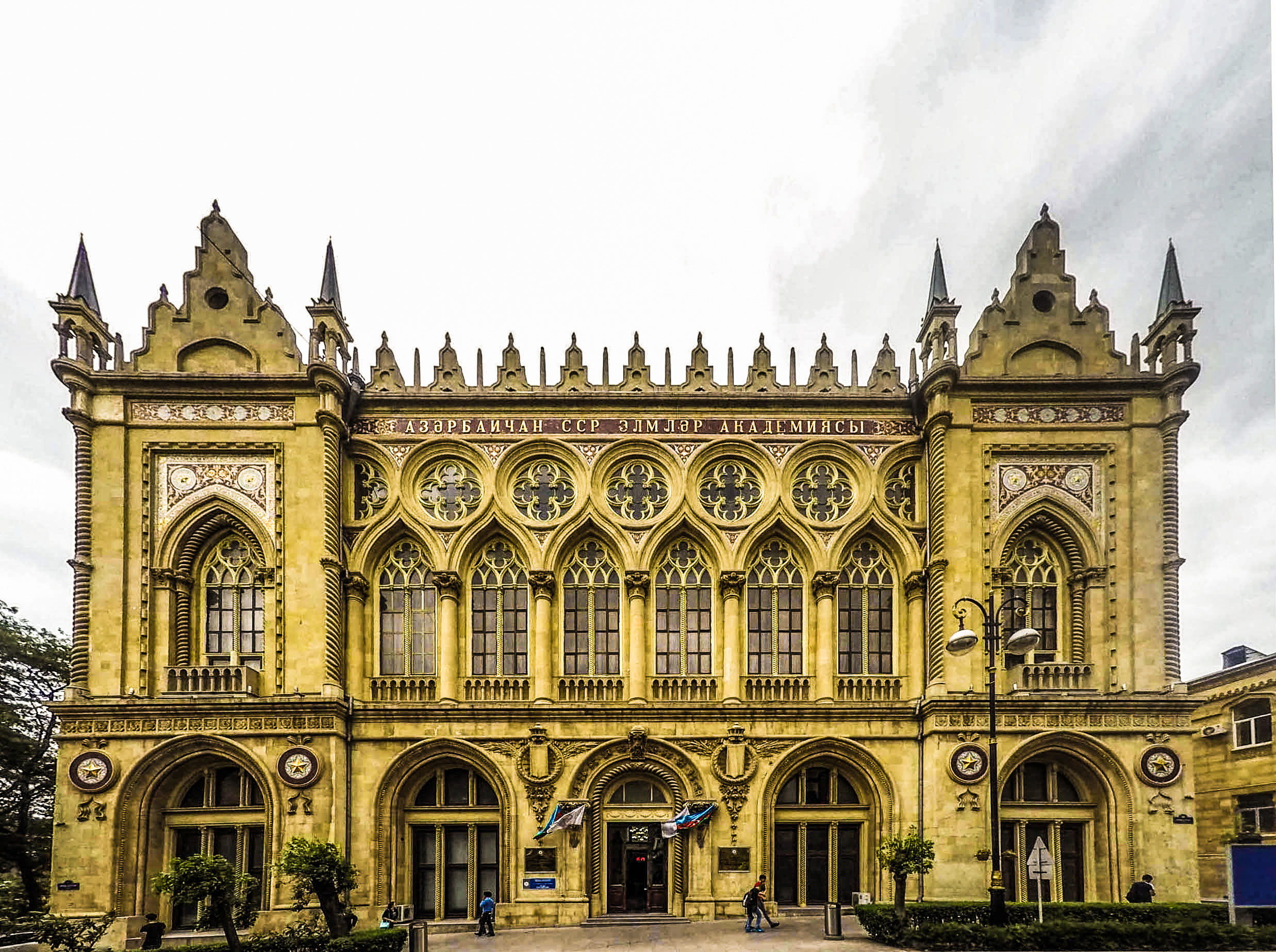 Ismailiyye palace main façade, Baku, 2015